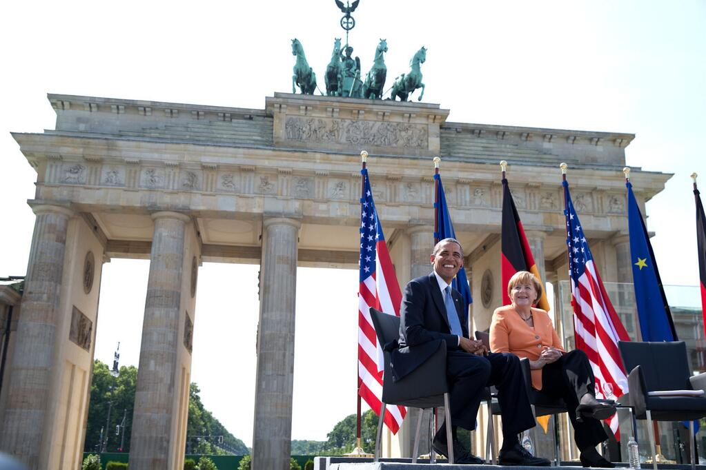 United States President Barack Obama and German Chancellor Angela Merkel at the Brandenburg Gate in Berlin on 19 June 2013.